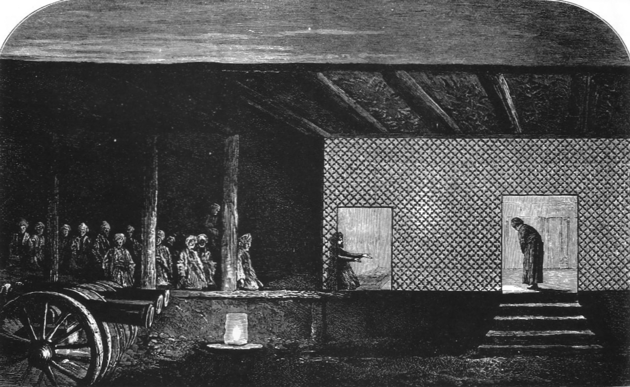 "Night interview with the Atalik-Ghazee". A night interview with Yaqub Beg